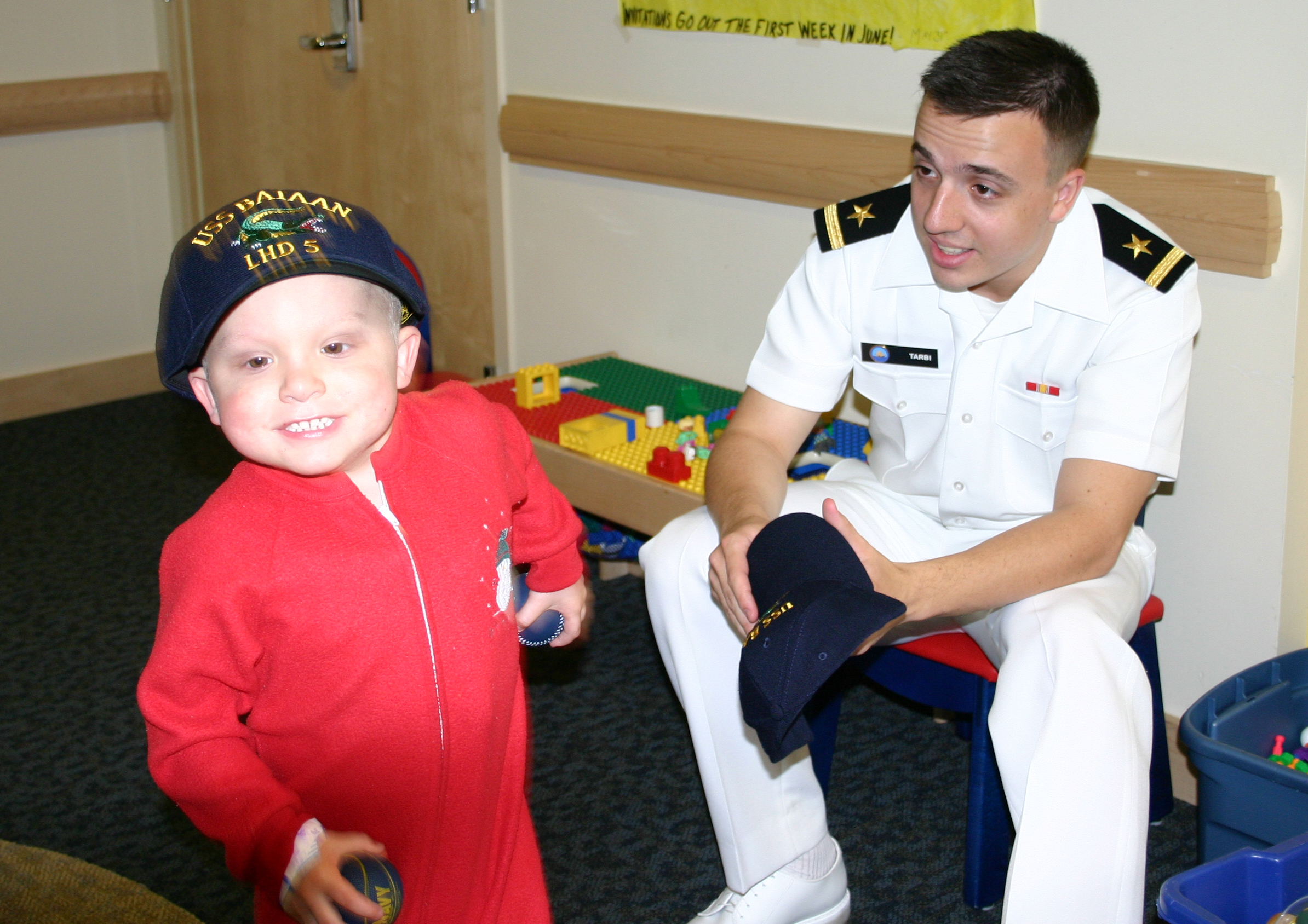 Boston, Mass. (June 16, 2005) - Boston College graduate, Ens. Luke Tarby presents a ball cap to a young child during "Caps for Kids" visit to the Jimmy Fund Clinic at the Dana-Farber Cancer Institute. The visit was one of many Navy events and activities planned during Boston's Navy Week. Twenty such weeks are planned this year in cities throughout the U.S., arranged by the Navy Office of Community Outreach (NAVCO). NAVCO is a new unit tasked with enhancing the Navy's brand image in areas with limited exposure to the Navy. U.S. Navy photo by Journalist 1st Class Dave Kaylor (RELEASED)